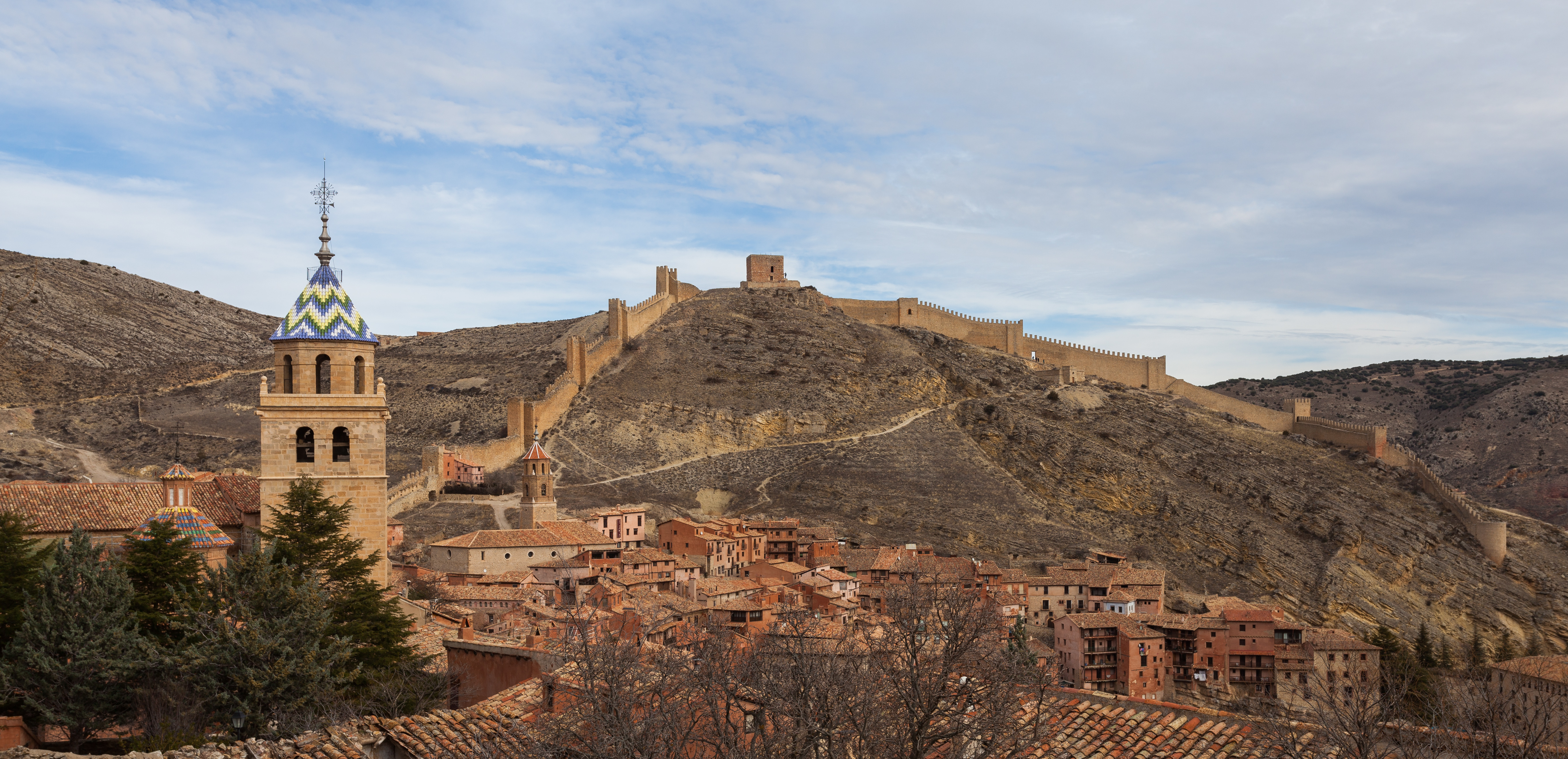 Albarracín, Teruel, Spain